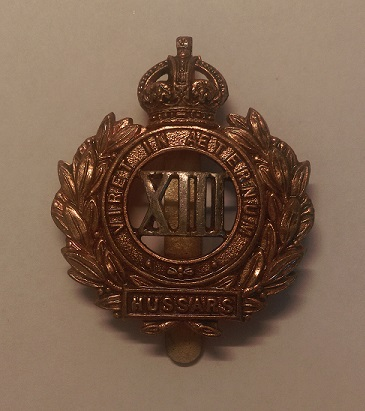 Photo of 13th Hussars Cap Badge from personal collection